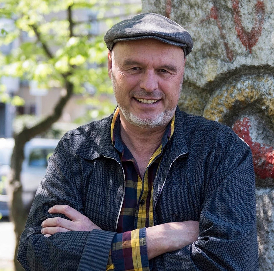 Portrait of Heinz Nigg